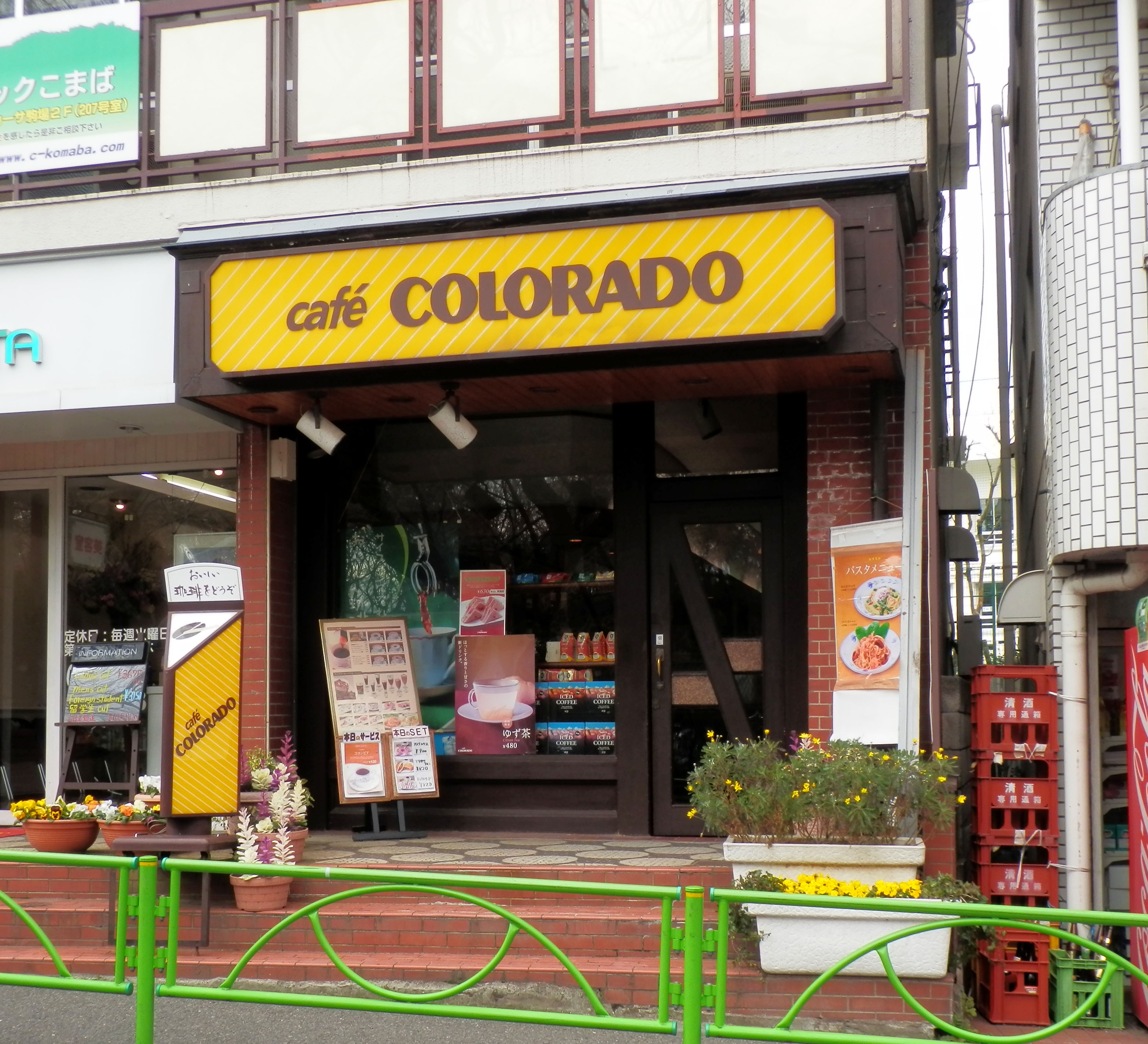 Café COLORADO (Tokyo, Japan)